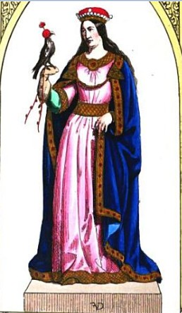 Margaret I, Countess of Flanders